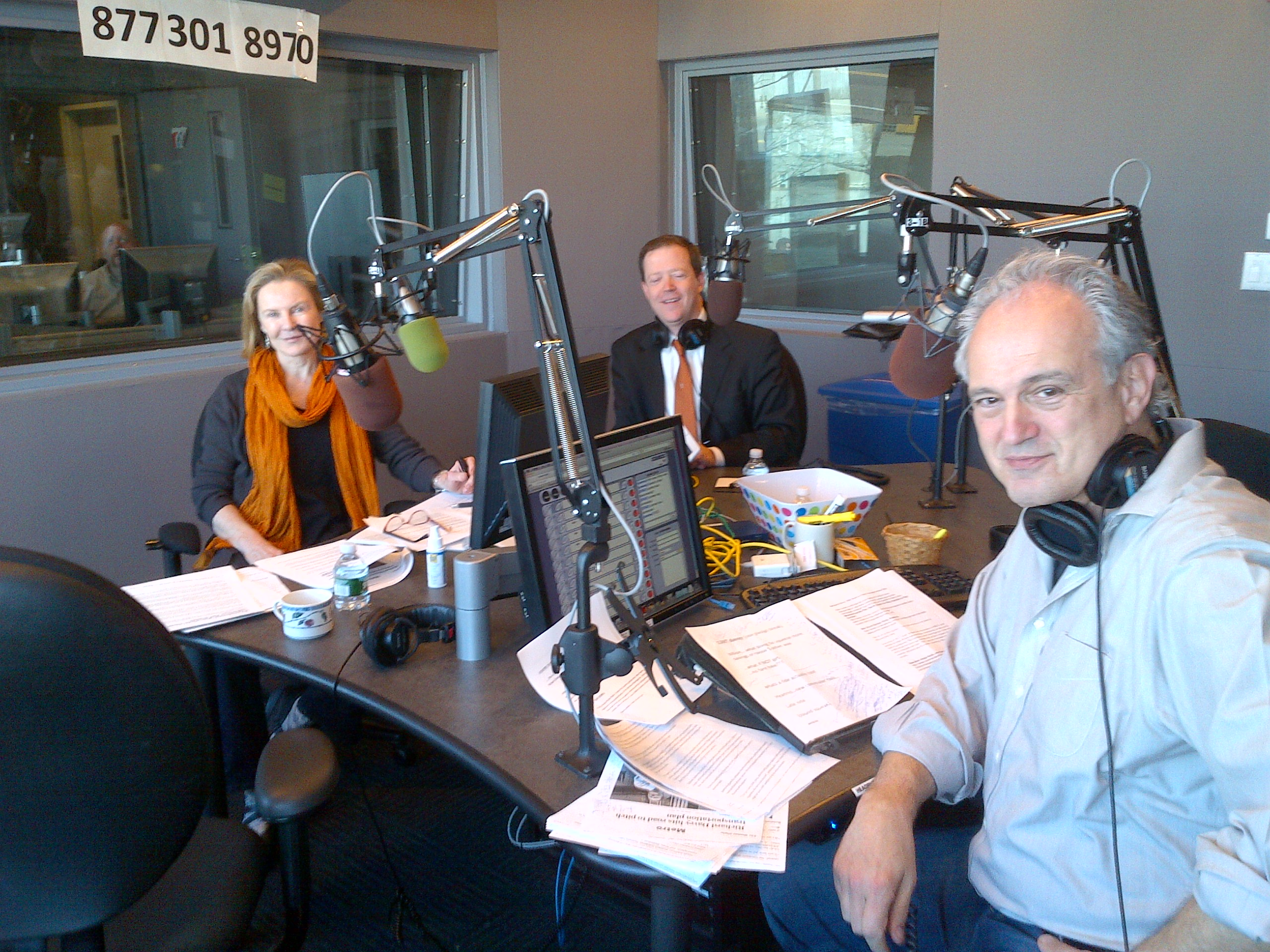 MassDOT Secretary Richard Davey joins WGBH Public Radio hosts Jim Braude and Margery Eagan for a discussion and view call-in about Governor Patrick's 21st Century Transportation Plan.